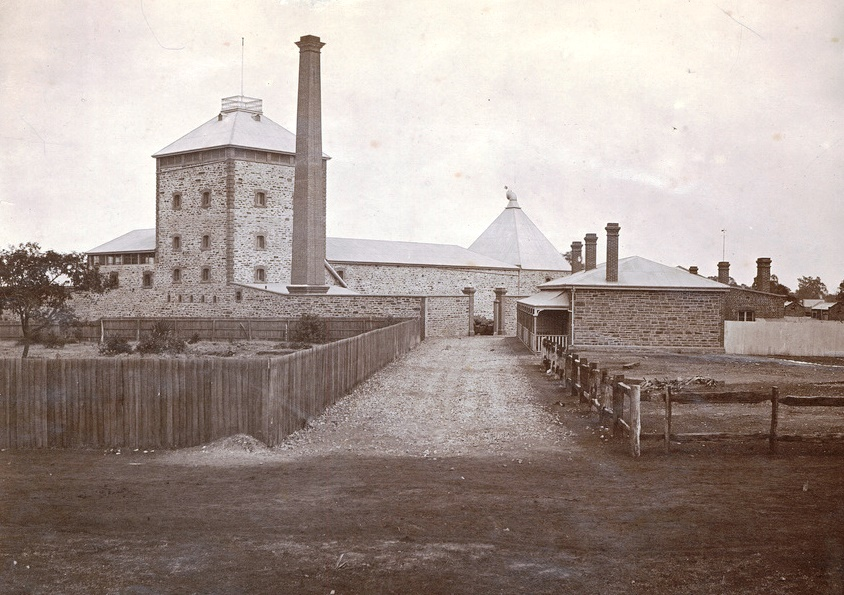 Kent Town Brewery c. 1875